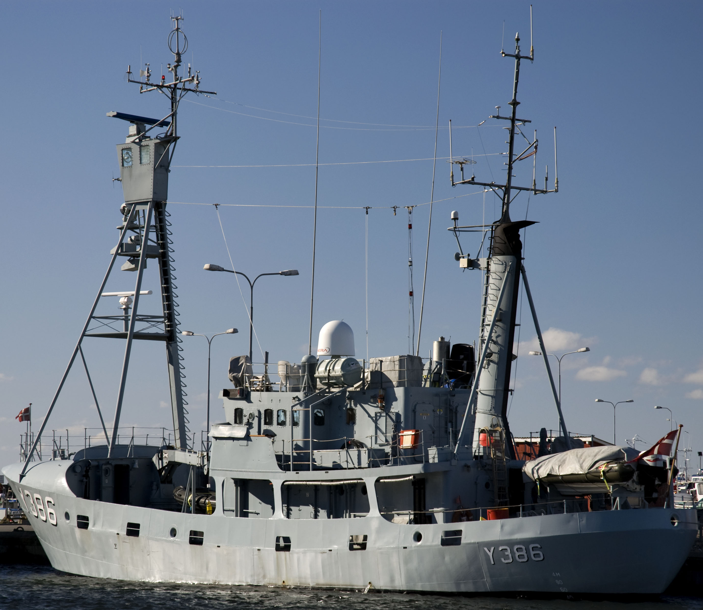 Danish navy north atlantic patrol cutter Agdlek, Adglek-class